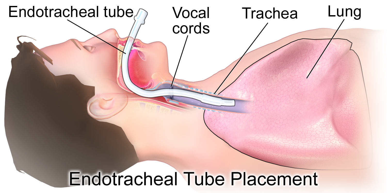 Illustration of an endotracheal tube.